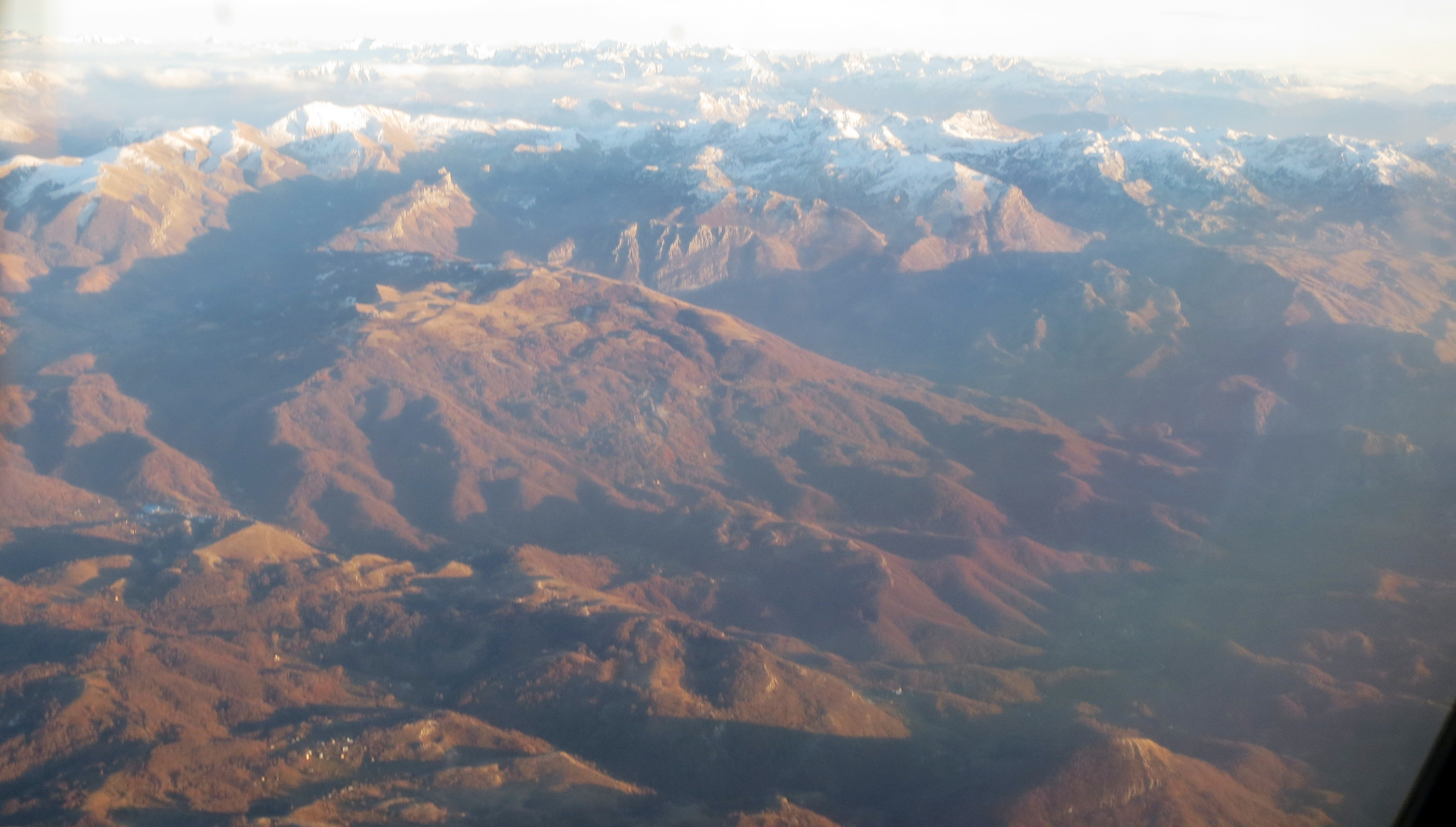 Aerial view over eastern Podgorica District, Montenegro. The view is from the west towards east, viewing the Bjelasica Mountains northeast of the Moraca Gorge. In the background are the Prokletie mountains of Albania.